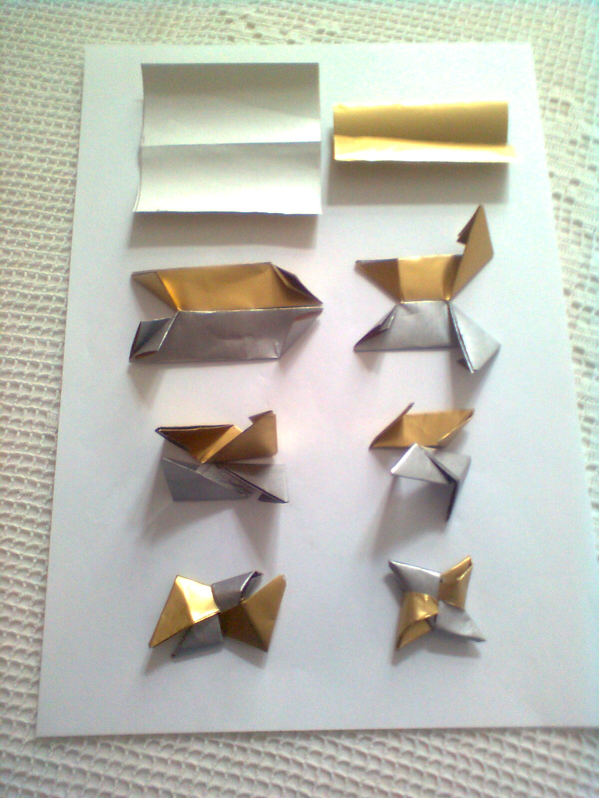 Paper christmas star.I made the 2011th Christmas for those processors, and used to love Wikipedia.